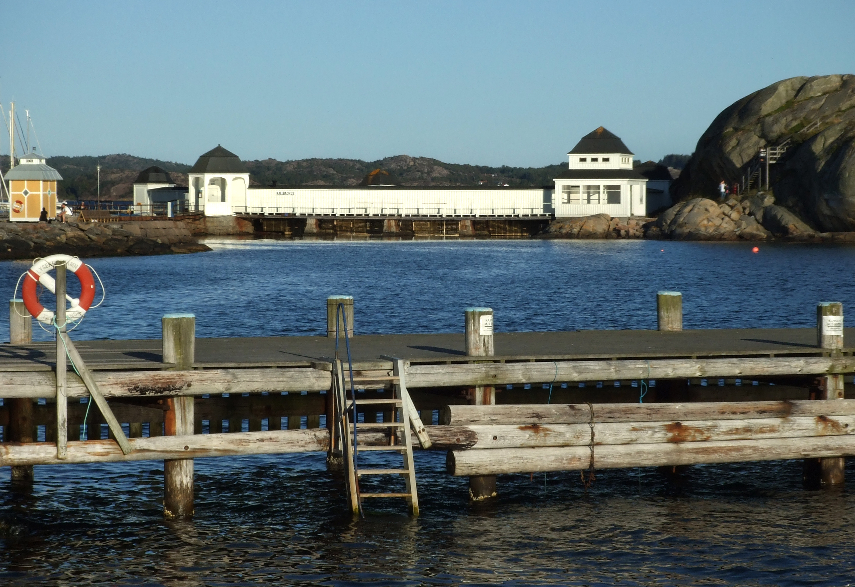 Open air bathhouse (Kallbadhuset) in Lysekil, Sweden.